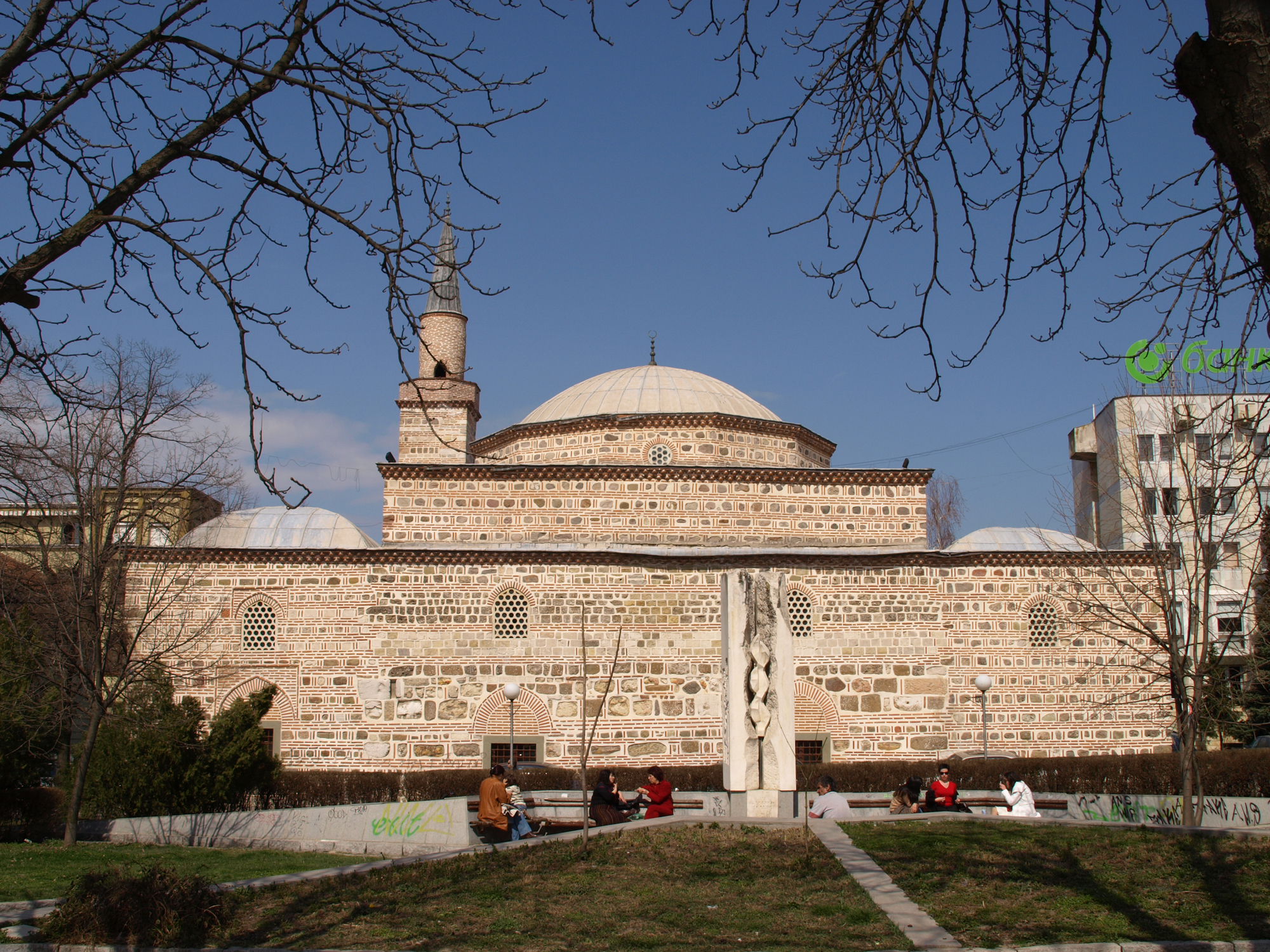 Eski Mosque (Old Mosque), 1373, Yambol, Bulgaria